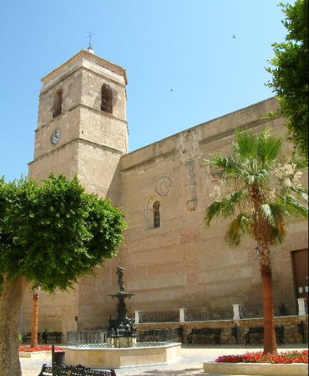 Nuestra Señora de la Encarnacion Church of Vera (Almeria, Spain)